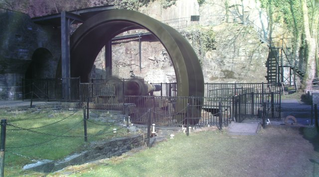 Water Wheel This 5 second exposure of a water wheel would never be seen whizzing around like this in real life due to sheer physics and gravity. No spokes - but no water being hurled over the top either and yet a blurred hub! Not a real life image so supplemental to the cause of this site. Back to reality though - this wheel is actually part of this National Trust's site's effort to show that water energy can be converted into electricity - the other side of the wheel's hub is actually geared into an electricity generator.